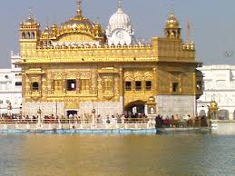 Golden Temple